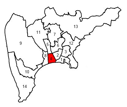 Location of canton of Nice-4 in the city of Nice, Alpes-Maritimes, France.